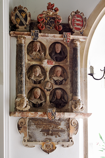 Mural monument to Tobie Newcourt (d.1612) of Pickwell in the parish of Georgeham, Devon. Pickwell Chapel of St George's Church, Georgeham. John Newcourt bought the manors of Georgeham and Pickwell in 1560. The oldest inscribed tomb in the churchyard is that of John Newcourt who died in 1602. The monument is dedicated to his son Tobie Newcourt. The sculpture shows busts of six persons, two per row. It is thought to represent Tobie, his son John Newcourt and John's four sons John, William, Tobias and another John. The two female heads represent the wives of Tobie and his son. The inscription is now nearly illegible but was recorded many years ago as follows: "To the pios memorie of Tobie Newcourt of Pickwell in this parish Esqr who married Mary third daughter of Arthur Harris of Heane Esqr by whom he had one son John and three daughters Elizabeth, Jane and Margaret. John (whose effigies is here presented) was buried the 6 June 1645 he married Mary the daughter of William Fry of Yeartie Esqr, by whom he had four sonnes John, Tobie, William and John. Jane the daughter of the said Tobie survived her two sisters her brother and all his four sonnes. She married Gregorie the son of Henry Chichester of Bittadon Gent, who erected this monument A. D. 16??" (From: A BRIEF HISTORY OF THE CHURCH IN GEORGEHAM by Denise Smith and Brian Harris, Georgham PCC, 2007[1]) Arthur Harris (1561-1628) of Hayne, in the parish of Stowford, 11 miles SW of Okehampton, Devon, was Sheriff of Cornwall in 1603 and was Captain of St Michael's Mount in Cornwall. He died at Gulval, Cornwall. His monument is in Stowford Church, Devon.(Vivian, Lt.Col. J.L., (Ed.) The Visitations of the County of Devon: Comprising the Heralds' Visitations of 1531, 1564 & 1620, Exeter, 1895, p.449, pedigree of Harris of Hayne) Arms of Harris: Sable, three cresents argent a bordure of the last. At the bottom of the monument are the arms of its donor, Chichester impaling Newcourt.